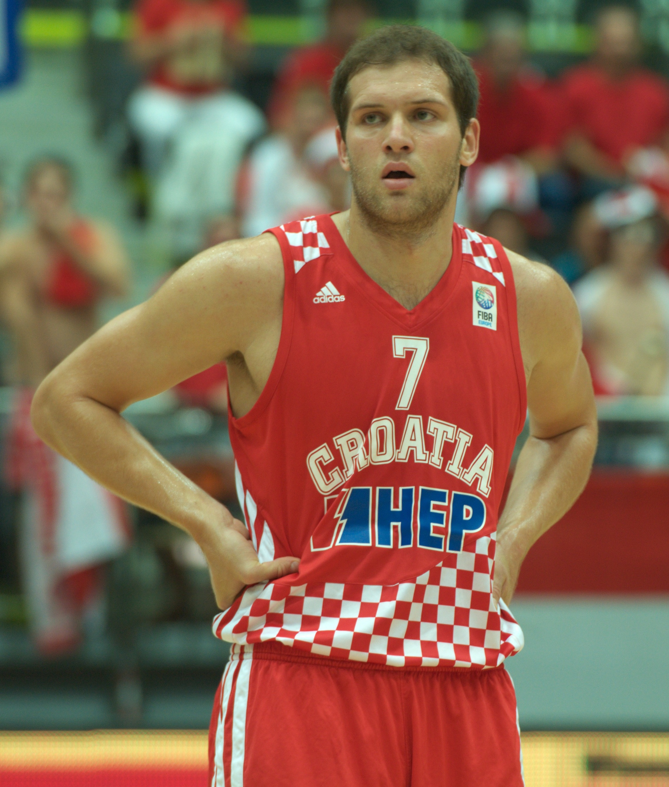 Bojan Bogdanović playing for Croatia in 2012.